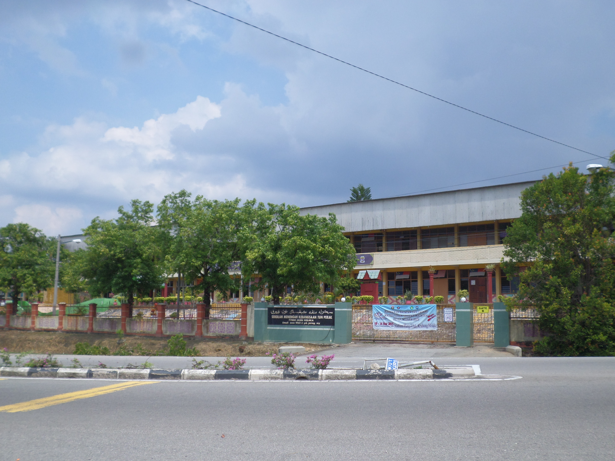 Tun Perak National High School, Jasin, Malacca, MalaysiaBahasa Melayu: Sekolah Menengah Kebangsaan Tun Perak, Jasin, Melaka, Malaysia